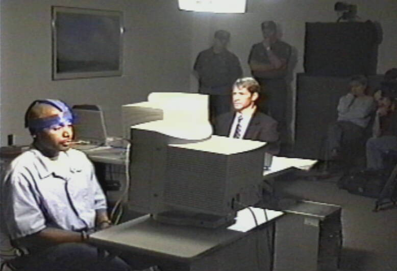 Dr. Lawrence Farwell conducts a Brain Fingerprinting test on Terry Harrington. The result showed that the record in Harrington's brain did not match the murder for which he had served 23 years of a life sentence. Harrington was released on constitutional rights grounds.